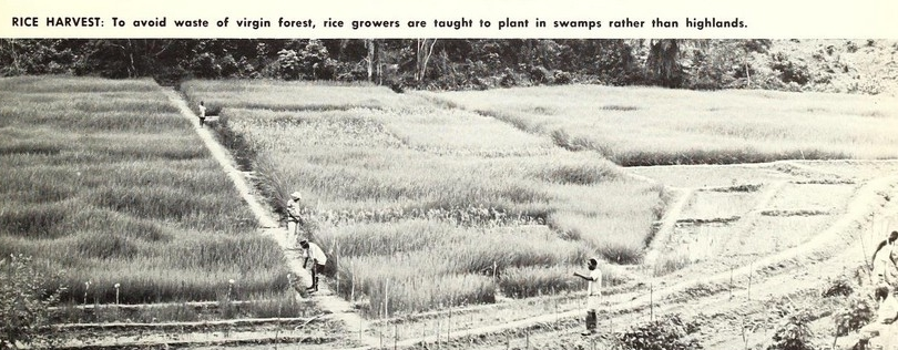 Book illustration from: A market for U.S. products in Liberia